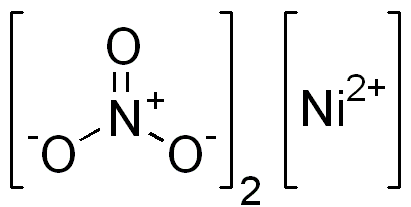 chemical structure of nickel nitrate